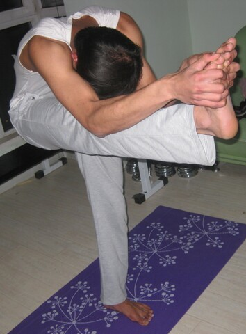 Dandayamana-Janushirasana